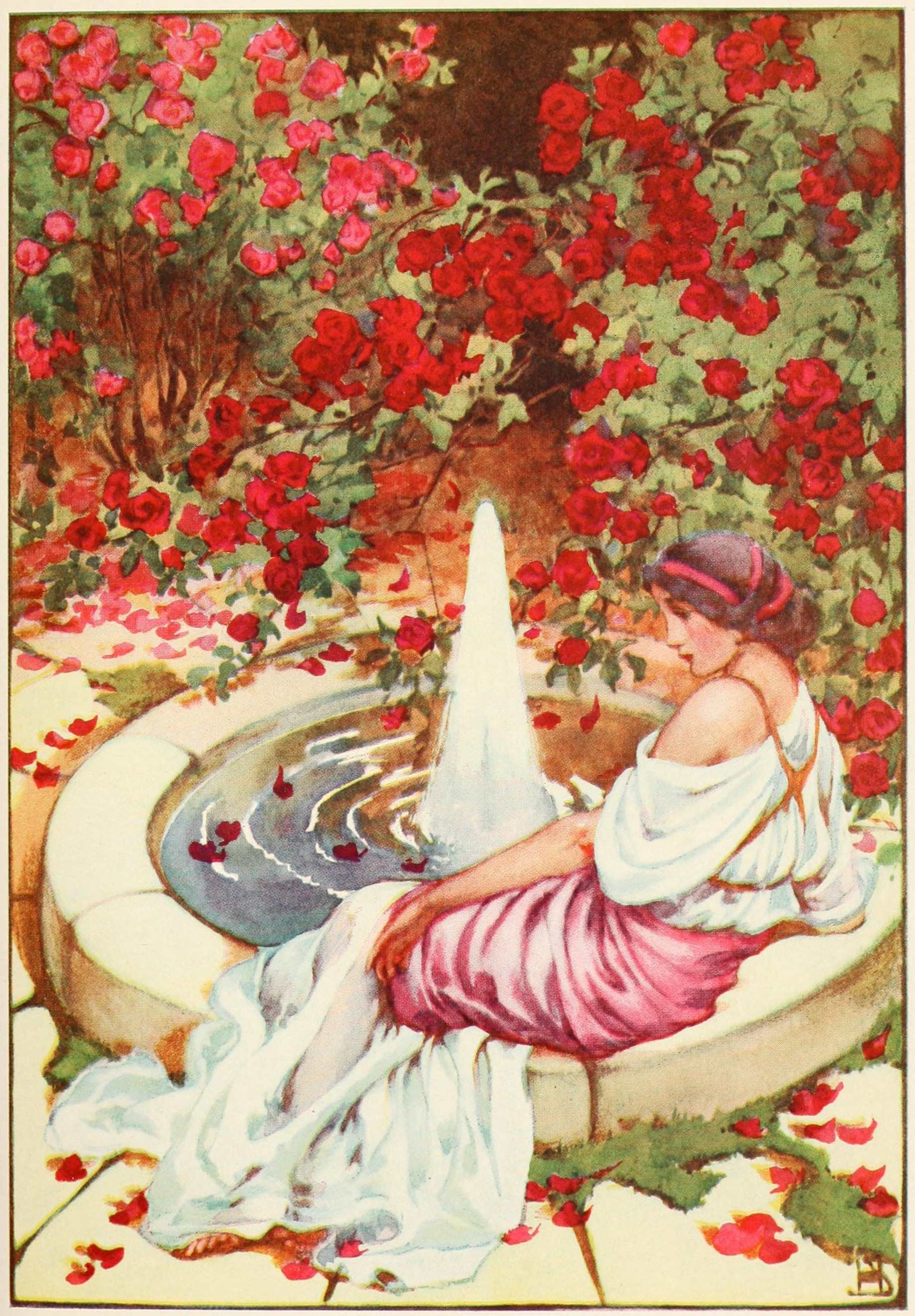 Illustration from a collection of myths.